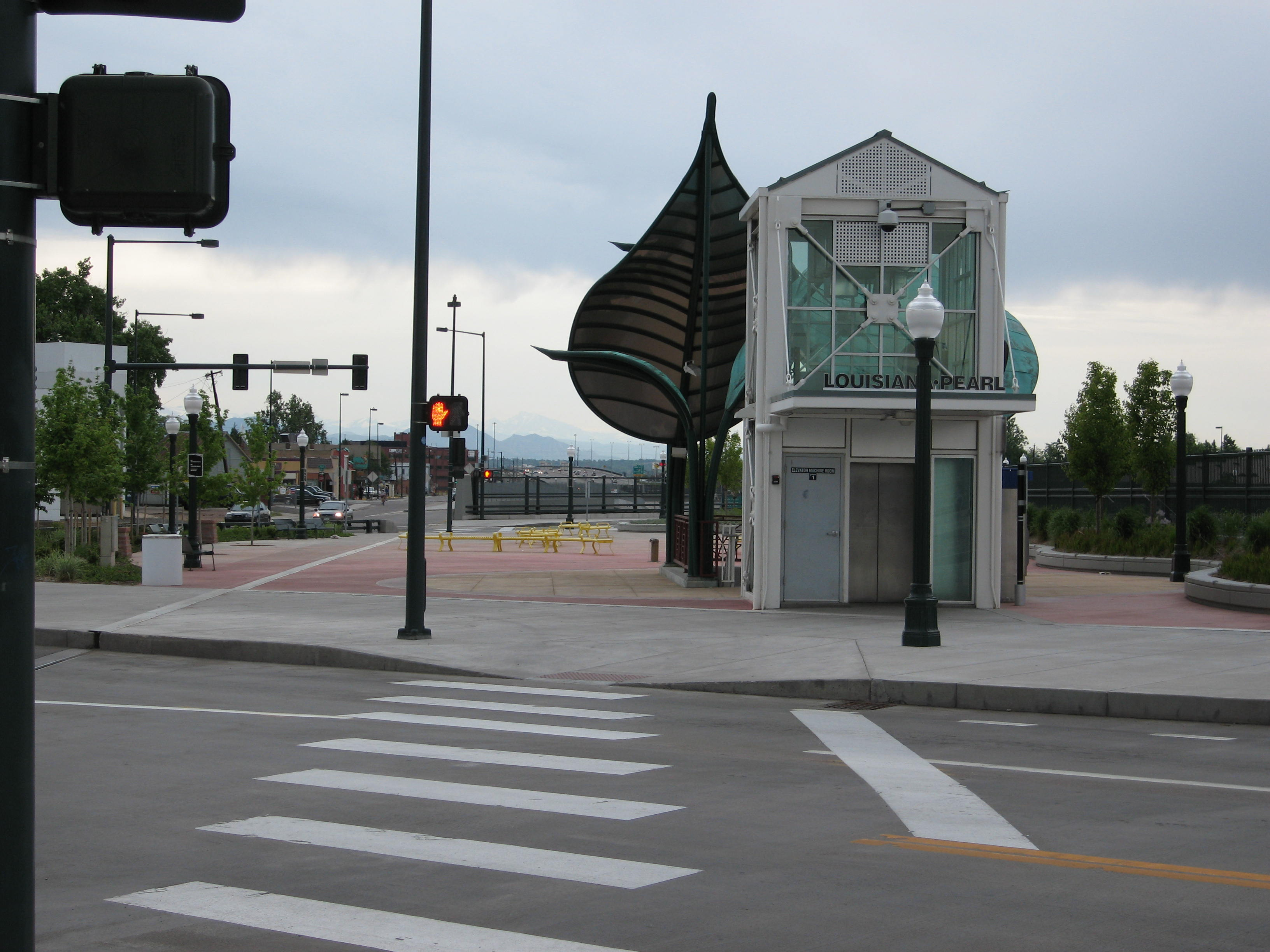 Personally taken by me (MobyLL), with a digital camera, May 20, 2007